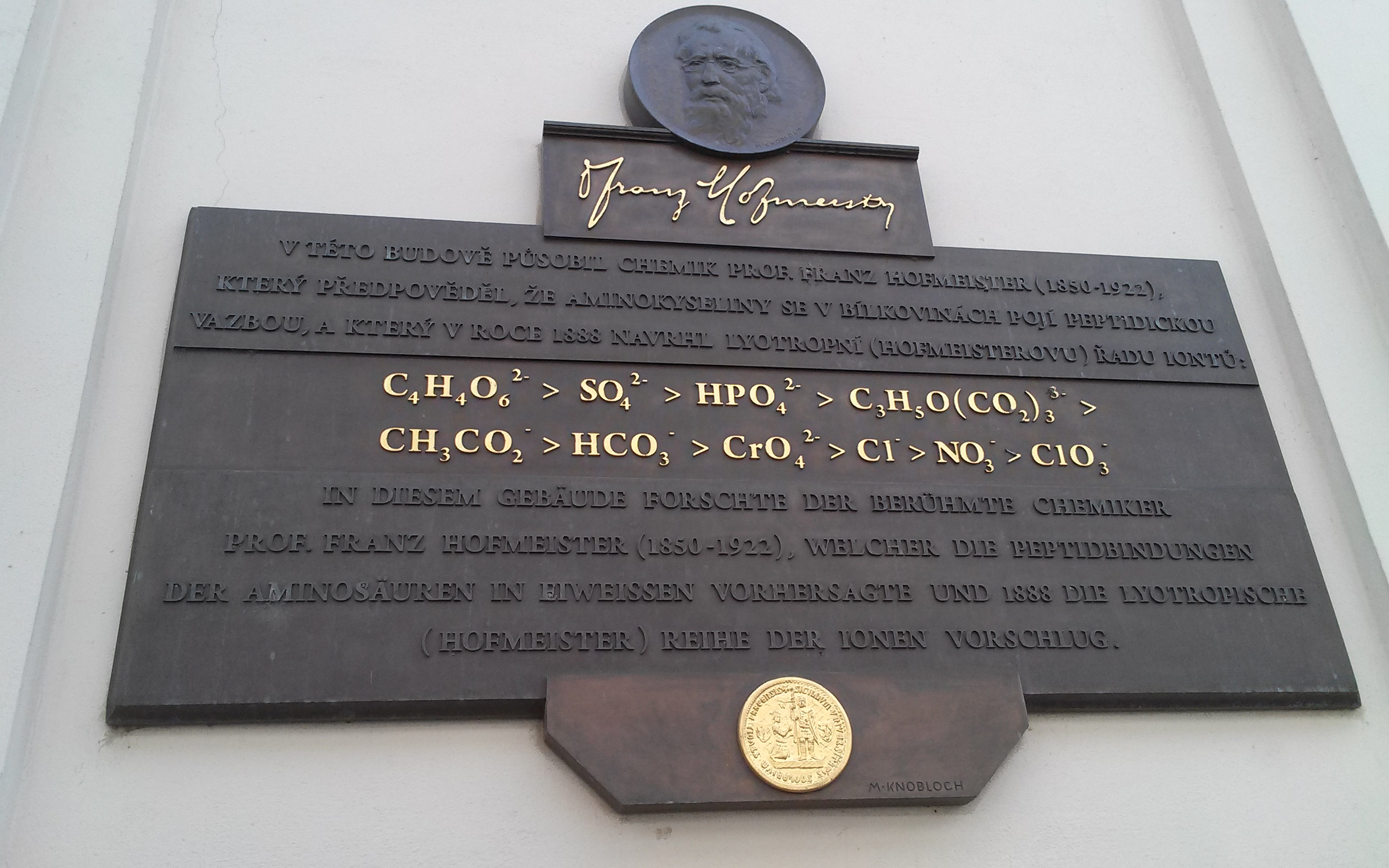 Commemorative plaque on the building, where Franz Hofmeister did his research, First Faculty of Medicine, Charles University in Prague